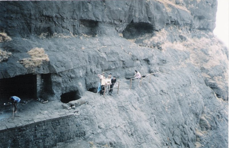 NANE GHAT CAVE: A huge cave at Nane Ghat which was a point of tax collection for traders coming up from KONKAN REGION ( Nane Ghat caves) clicked by Milind Dumbare.